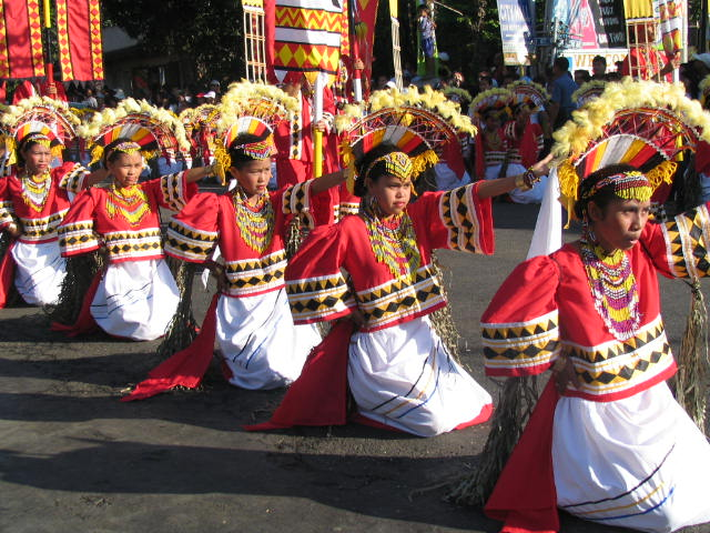 Participants in the Kaamulan 2007 street dancing competition